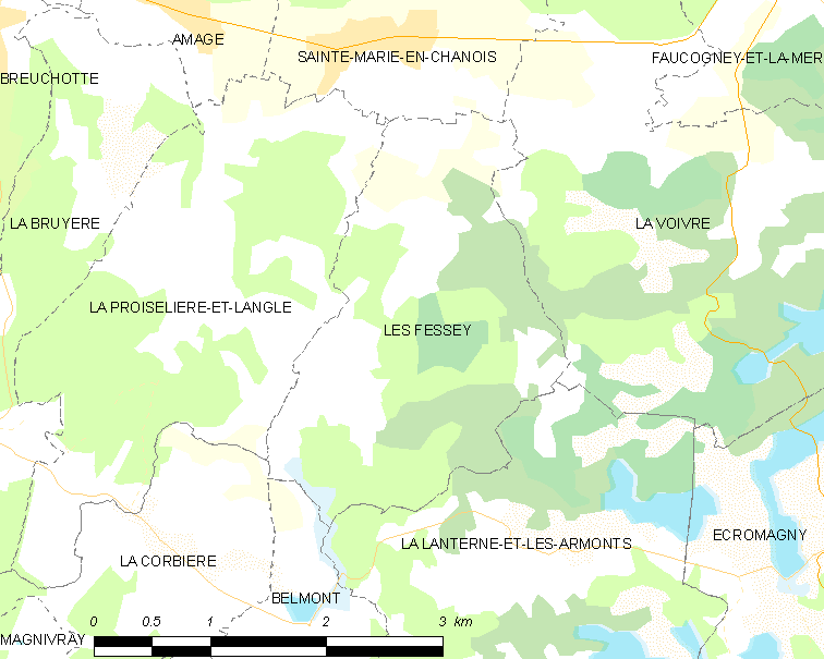 Map of French municipality